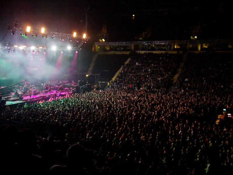 This is just a picture of the show's massive crowd. The concert was a cancer benefit hosted by Johnny Marr from the Smiths and included Badly Drawn Boy, the Doves, and New Order.